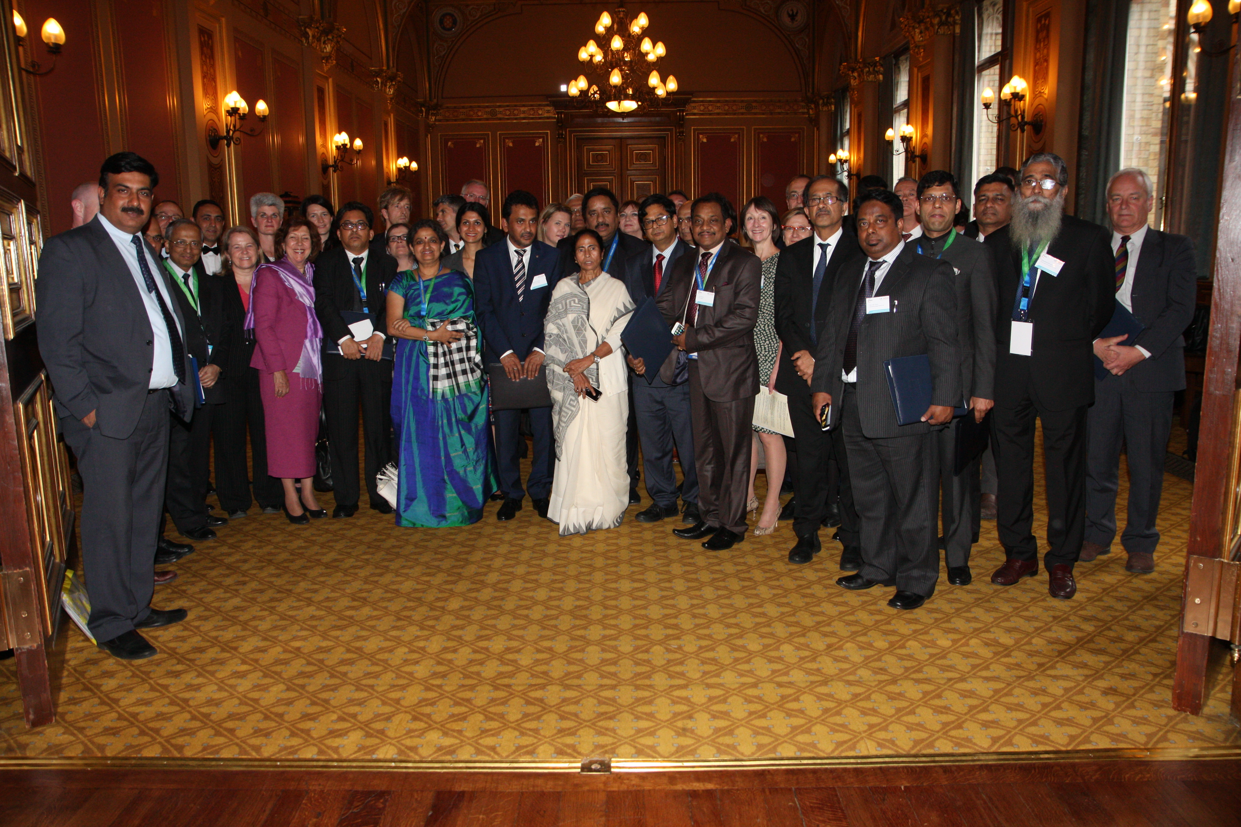 Mamata Banerjee, Chief Minister Government of West Bengal at an event in London, 27 July 2015.